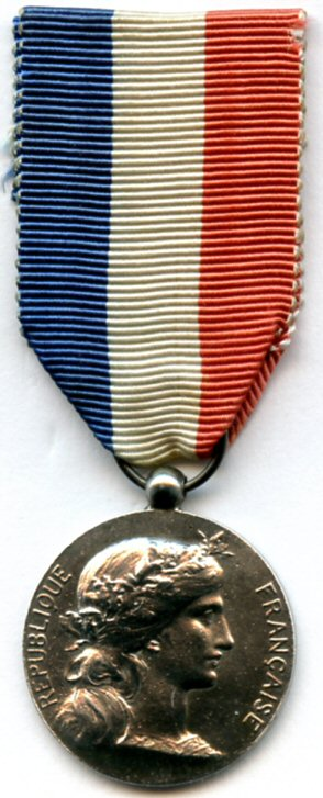 France - Honour Medal of Foreign Affairs. Type 1 (1887-2010)